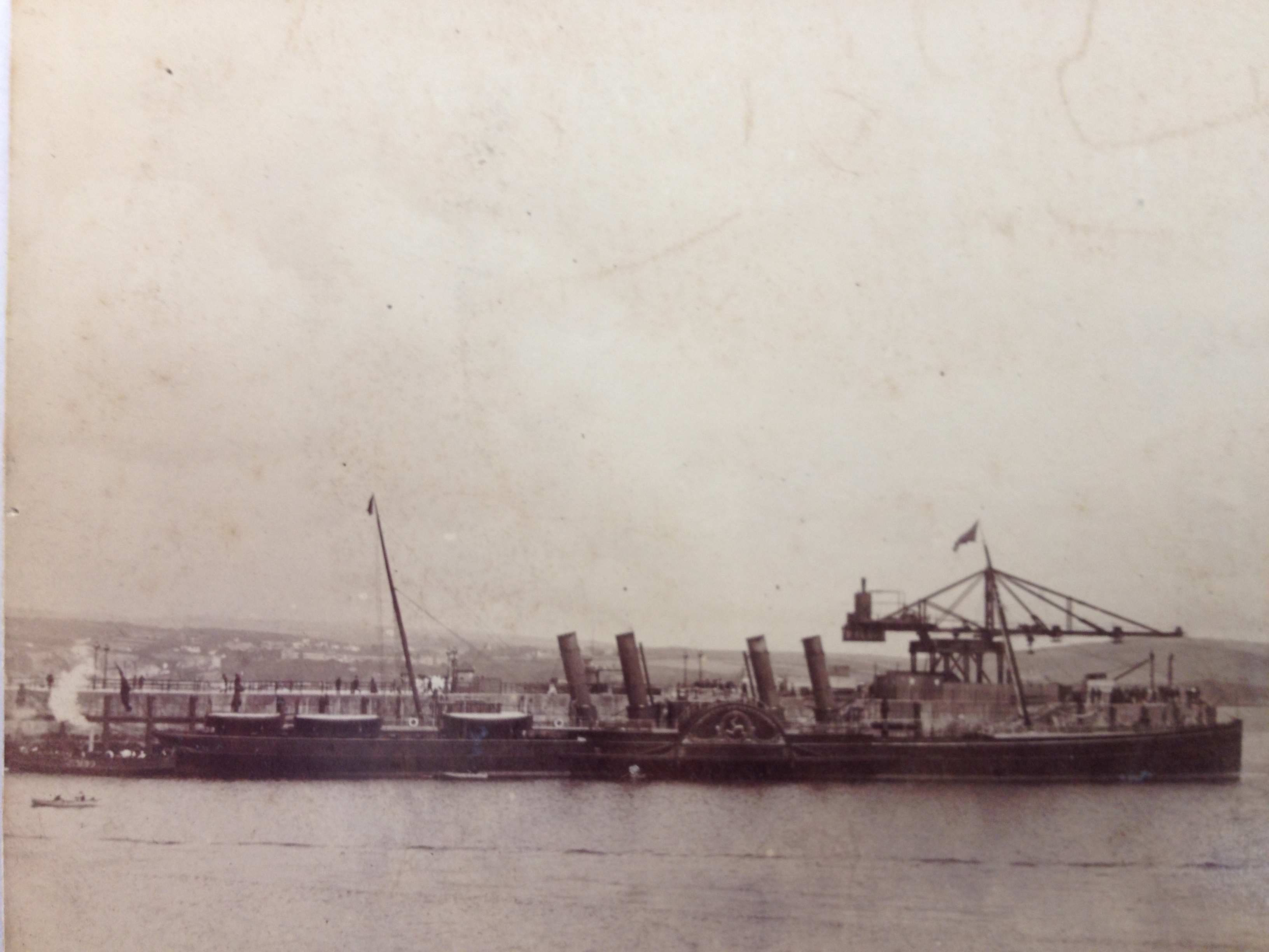 Isle of Man Steam Packet Company Paddle Steamer, Ben-my-Chree seen alongside the Victoria Pier, Douglas, during the pier's construction.